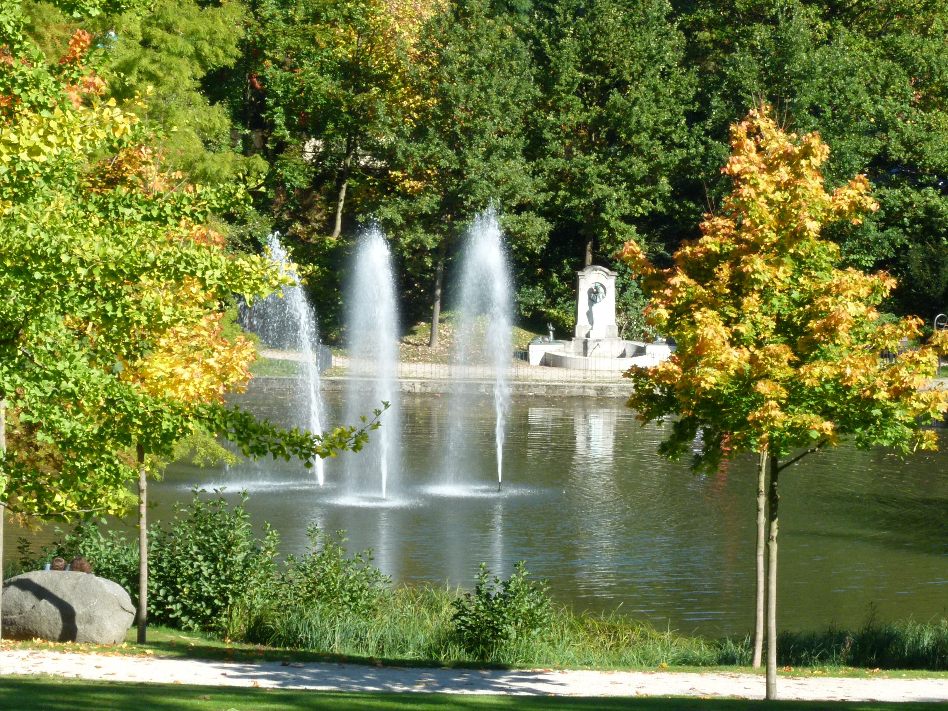 Kronberg Victoria Park: View to Schillerlake with Anton Burger Memorial